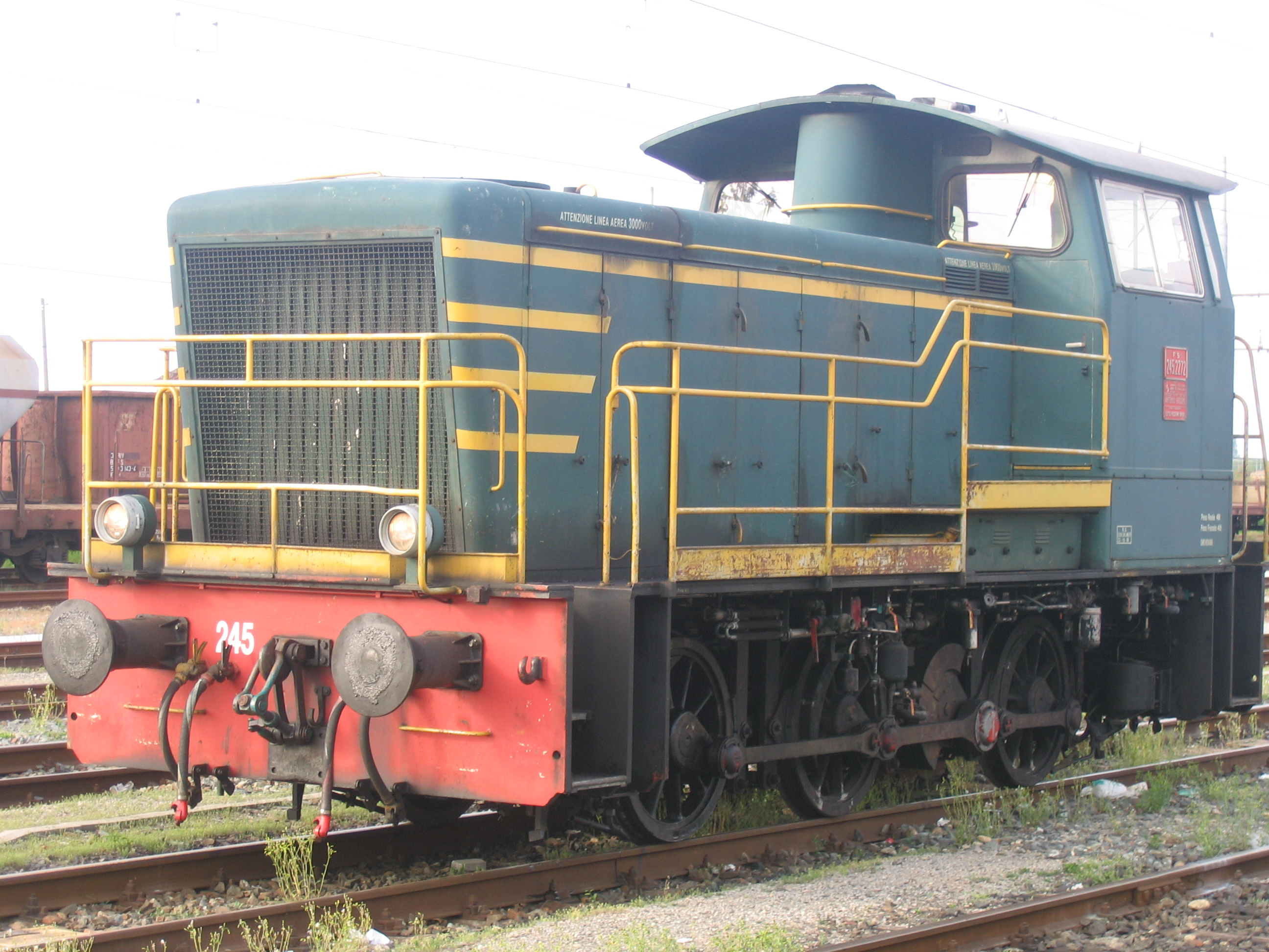 245.2272 heavy shunter. Santhià (TO), Italy